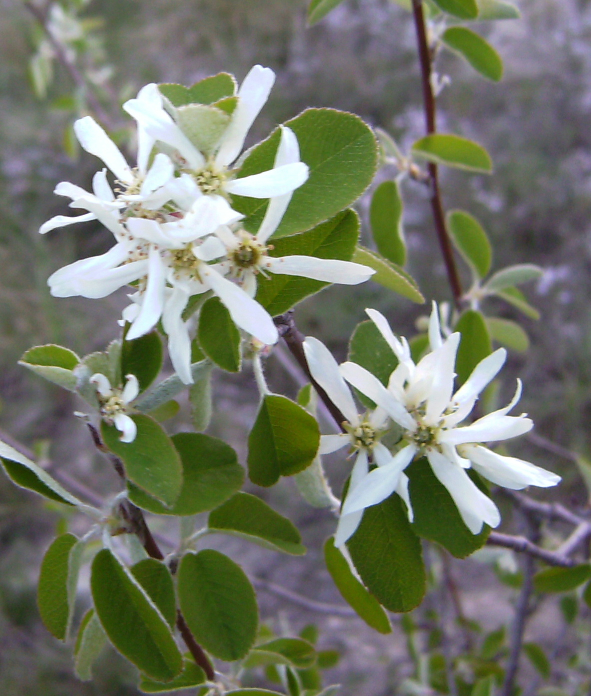 Amelanchier ovalis in the wild, flowers. Castelltallat, Catalonia